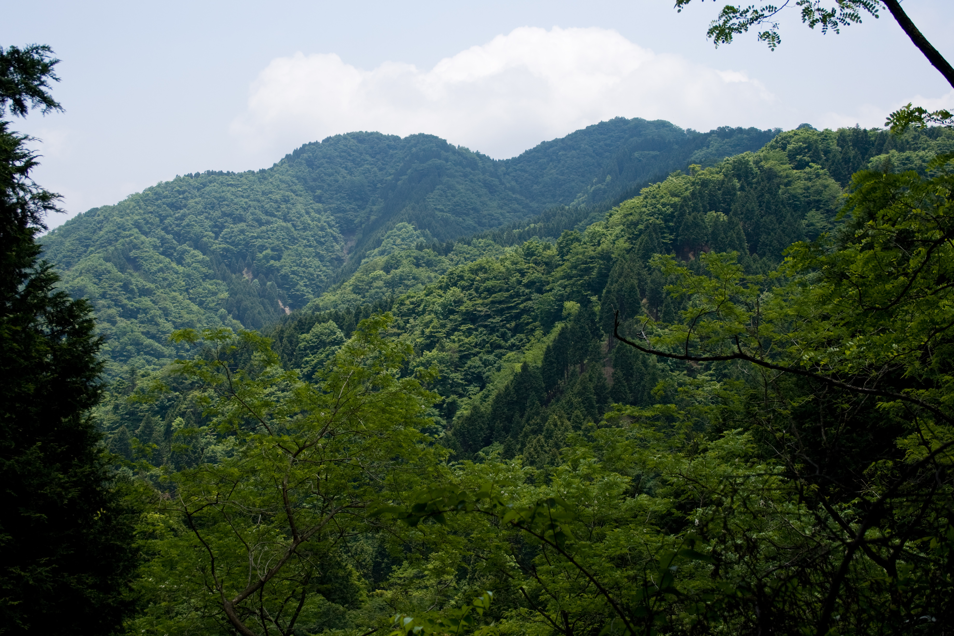 Mt.Byobuiwa at Mts.Tanzawa, Kanagawa, Japan.